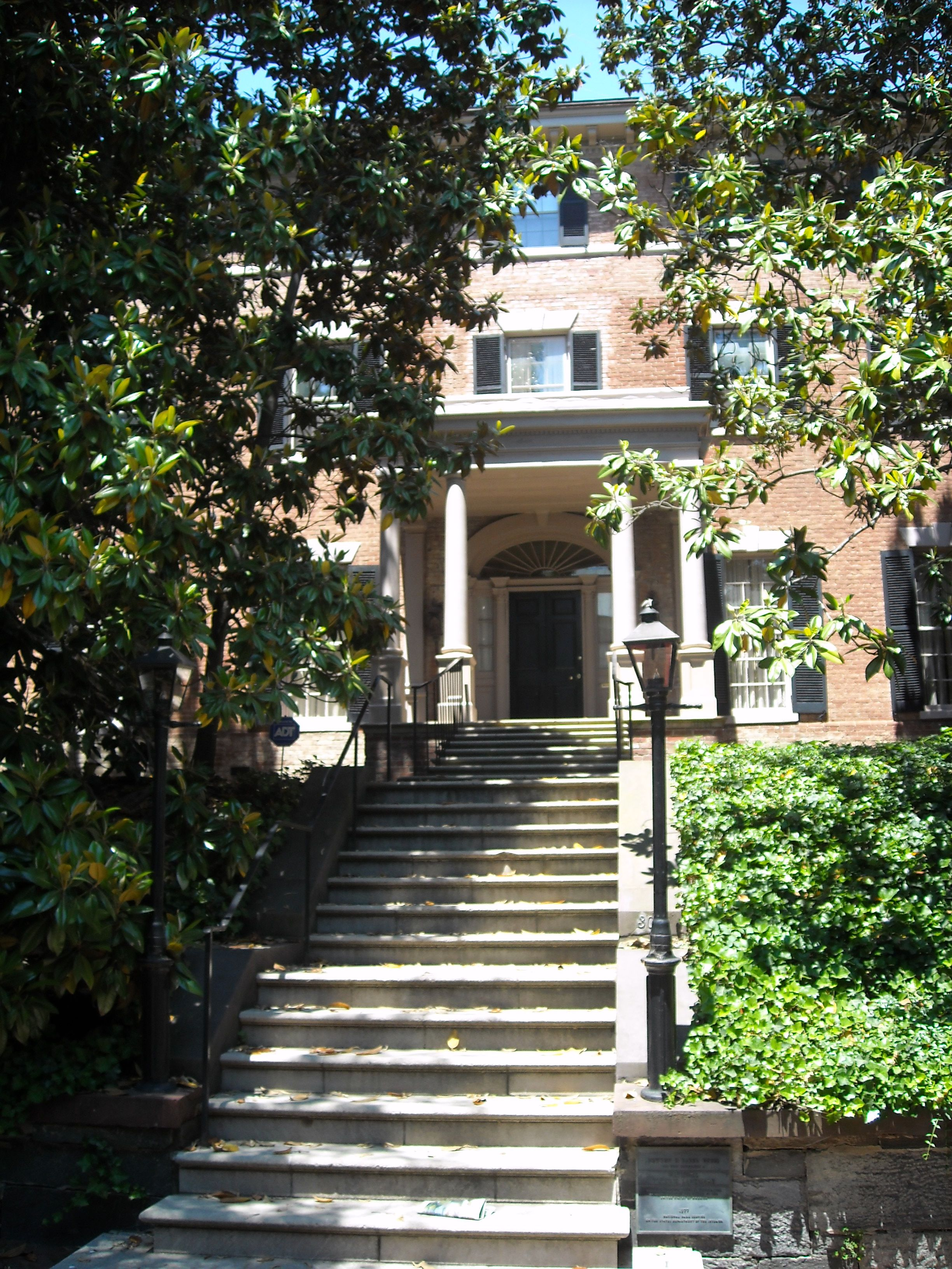 The Newton D. Baker House, also known as the Thomas Beall House and the Jacqueline Kennedy House, located at 3017 N Street, N.W., in the Georgetown neighborhood of Washington, D.C., United States. Built in 1794, the three-story Federal-style mansion originally served as the private residence of Thomas Beall, a wealthy businessman, real estate speculator, and mayor of Georgetown. In addition to Beall, previous occupants of 3017 N Street, N.W., include U.S. Representative George Peter, U.S. Secretary of War Newton Diehl Baker, Jr., and First Lady Jacqueline Kennedy. The Newton D. Baker House was designated a National Historic Landmark (NHL) in 1976; in addition, the house is designated as a contributing property to the Georgetown Historic District, a NHL listed on the National Register of Historic Places in 1967. As of 2010, the property value of 3017 N Street, N.W., is $3,364,010.